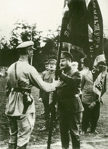 Mikhail Frunze hands colours best military unit of the Moscow Military District.